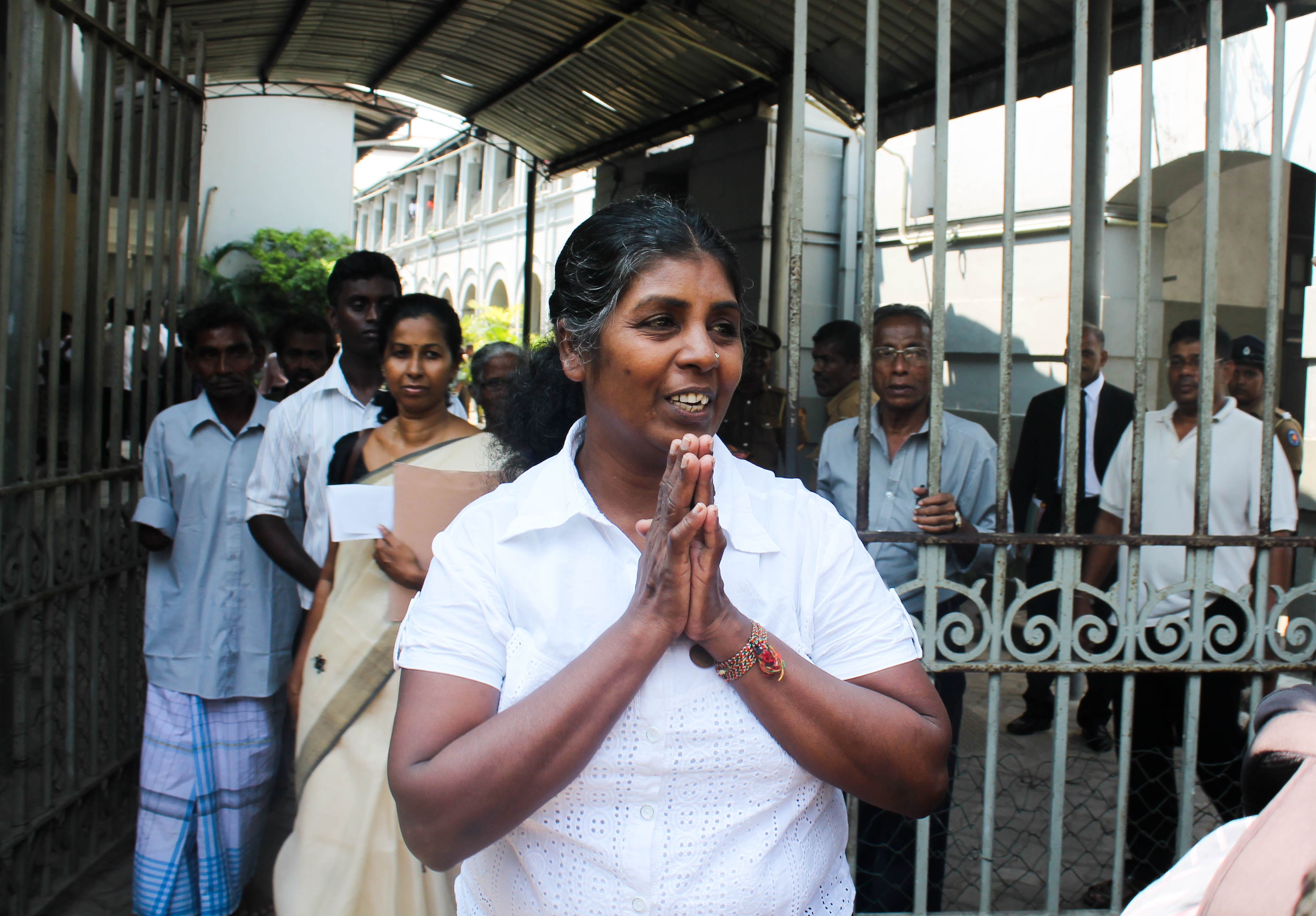 IMG_6522 Release on bail of Jeyakumari Balendran on 10 March 2015.